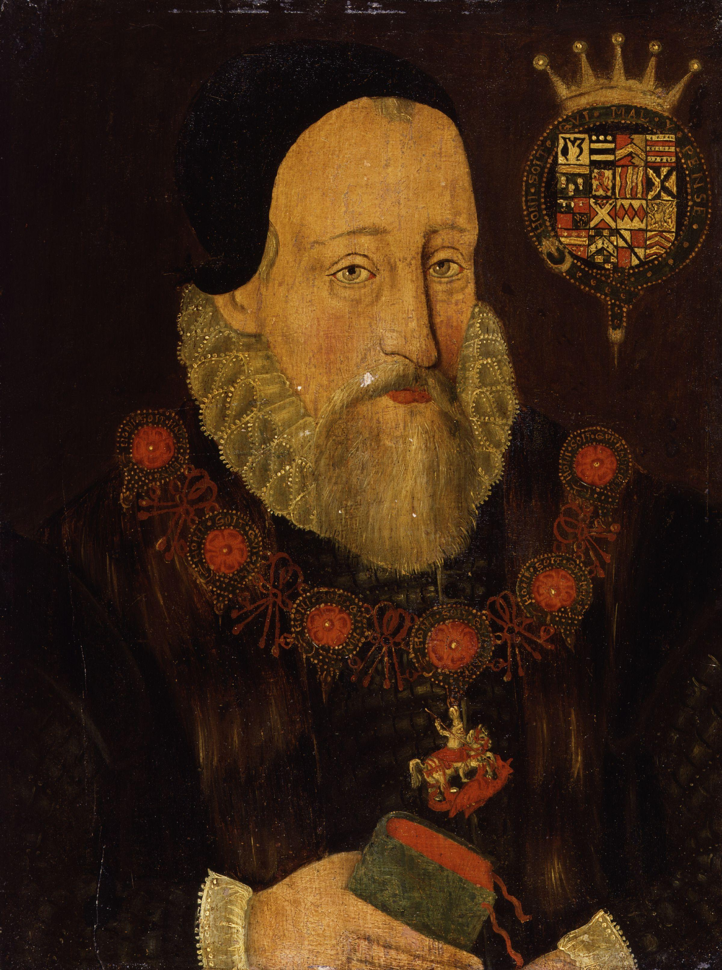 Portrait of Henry Hastings, 3rd Earl of Huntingdon (c. 1535–1595)